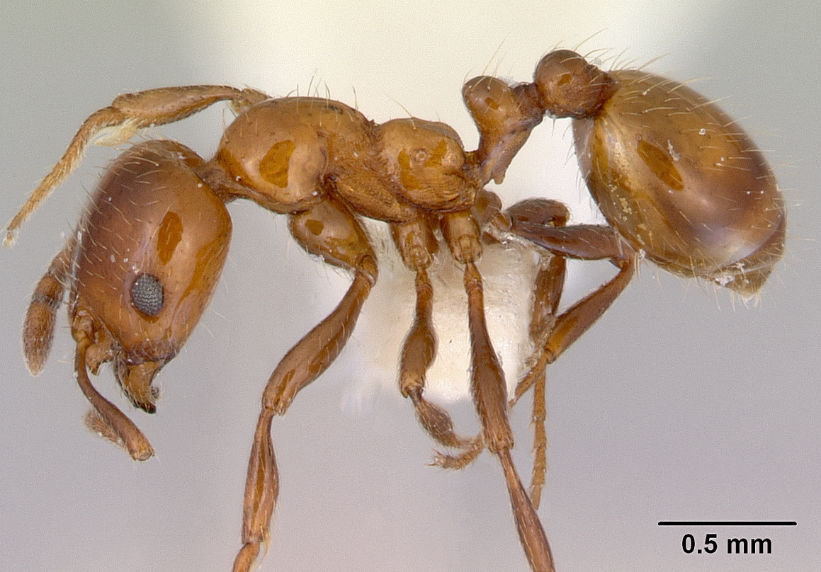 Profile view of ant Monomorium antarcticum specimen casent0172353.